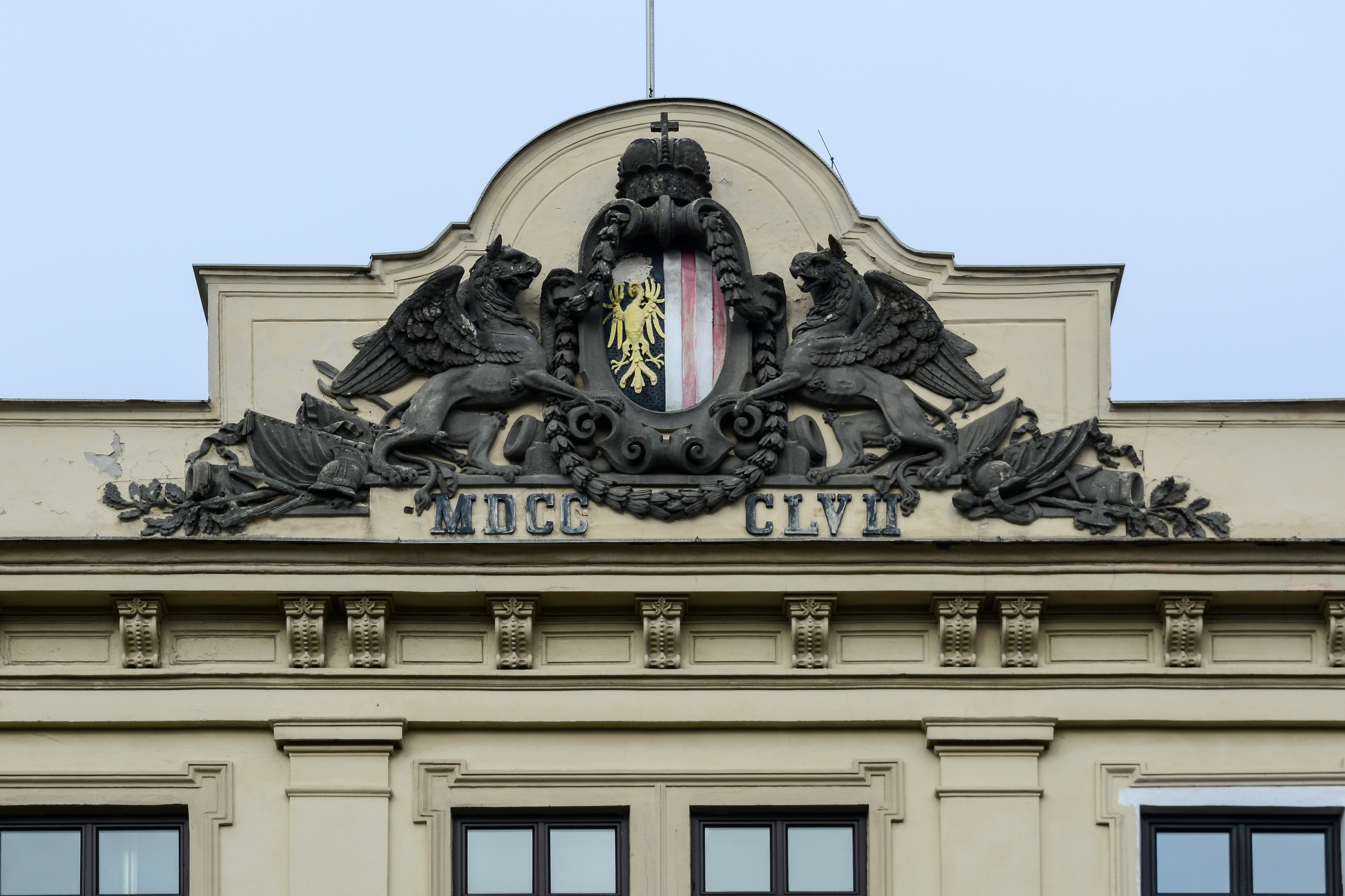 Gable of the south portal of the former cavalry barracks in Wels (Austria) with coats of arms of Upper Austria